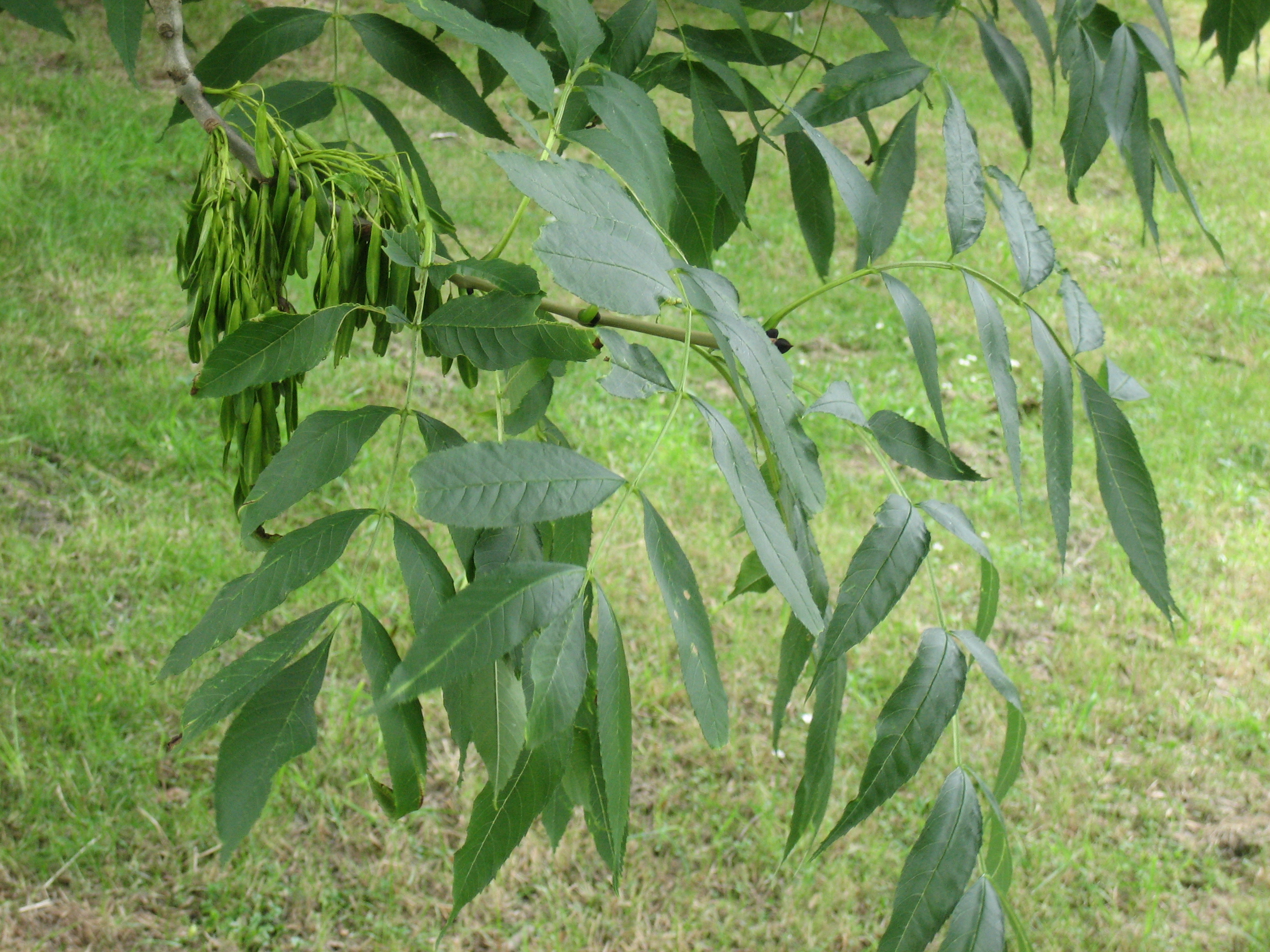 Fraxinus excelsior foliage and seeds. Jesmond Dene, Newcastle, Northumberland, UK; August 2005.